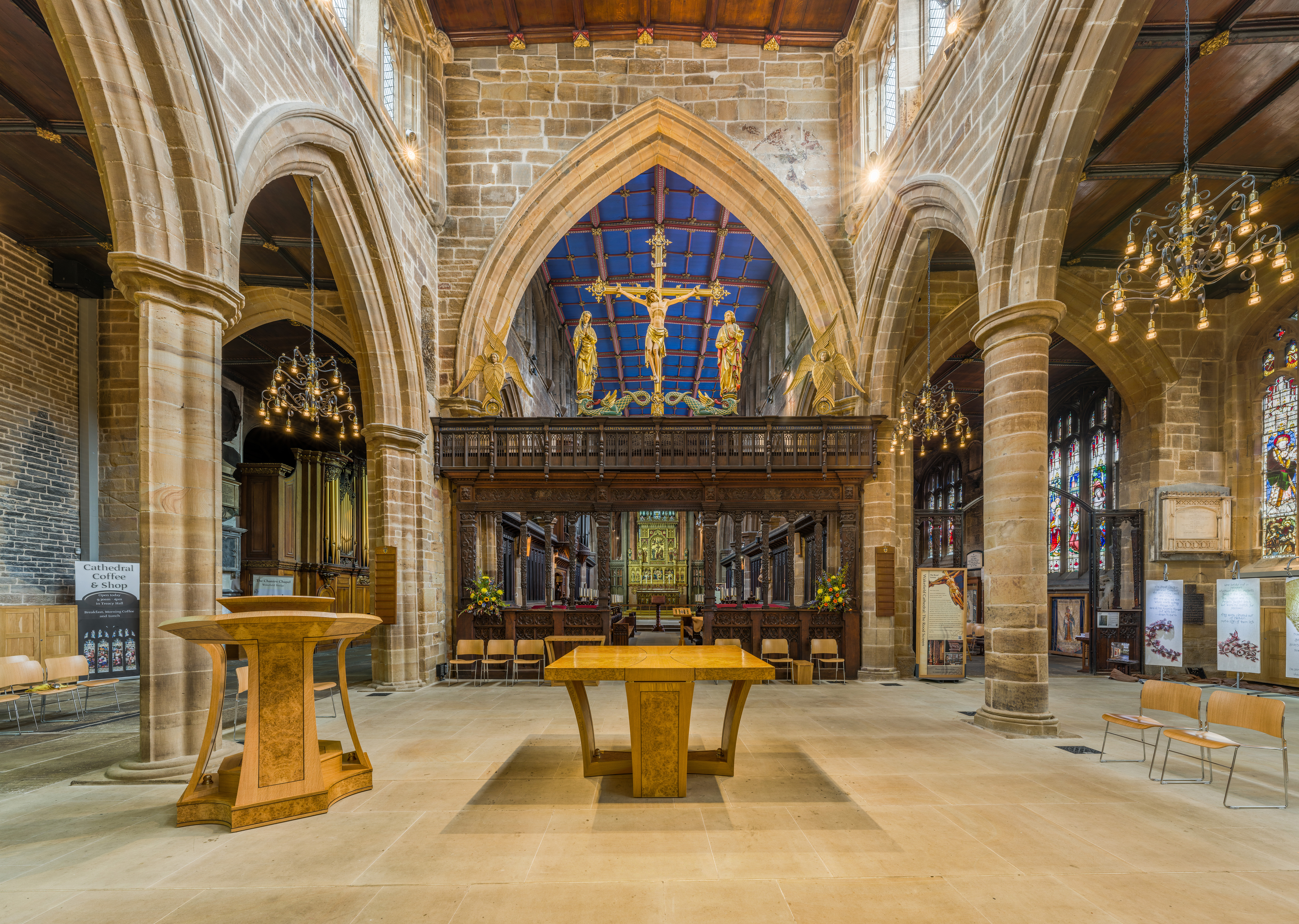 The front of the nave and rood screen of Wakefield Cathedral looking east in West Yorkshire, England.